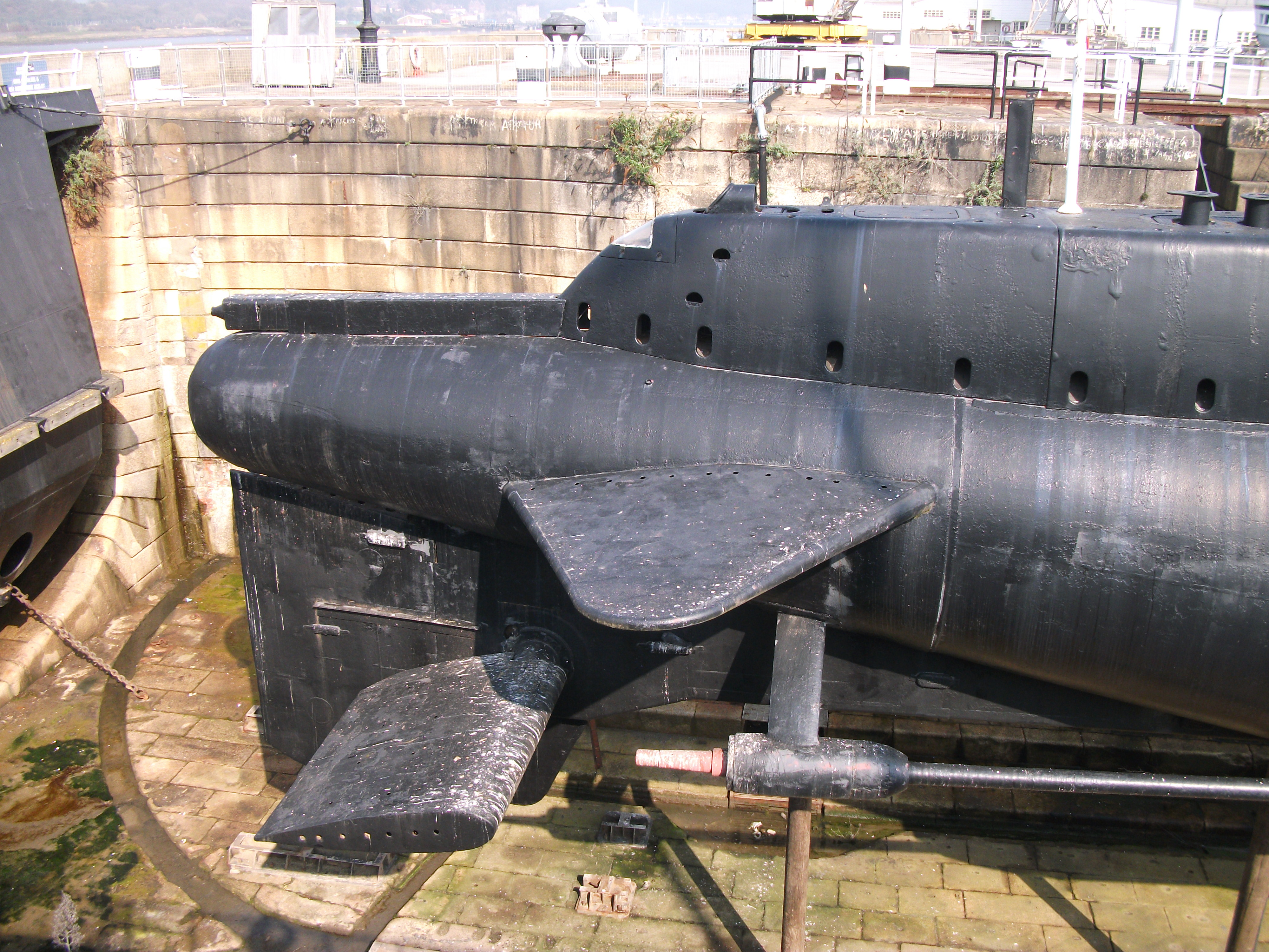 Side view of stern of Oberon class submarine HMS Ocelot (launched 5 May 1962). The submarine is now preserved at the Chatham Historic Dockyard museum, Chatham, Kent, UK. Propellor blades have been removed.